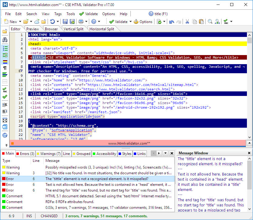 Screen shot of CSE HTML Validator Pro v17 - Main Window by AI Internet Solutions LLC